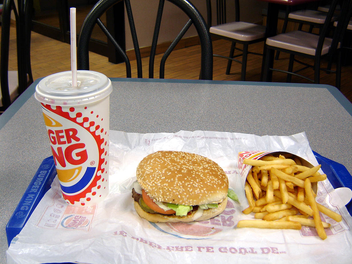 Burger King Whopper Combo April 2005, Mississauga, Canada.